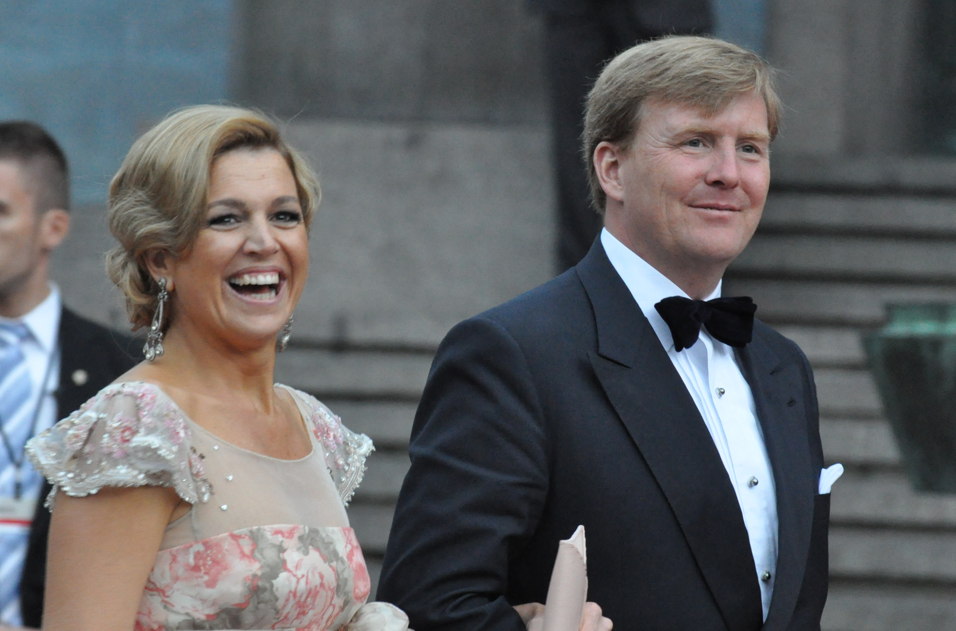 Wedding of Victoria, Crown Princess of Sweden, and Daniel Westling; Arrival of members for the Gouvernment and Swedish and foreign guests of hounour to the Riksdag's Gala Performance at Konserthuset: Willem-Alexander, Prince of Orange with Princess Máxima of the Netherlands